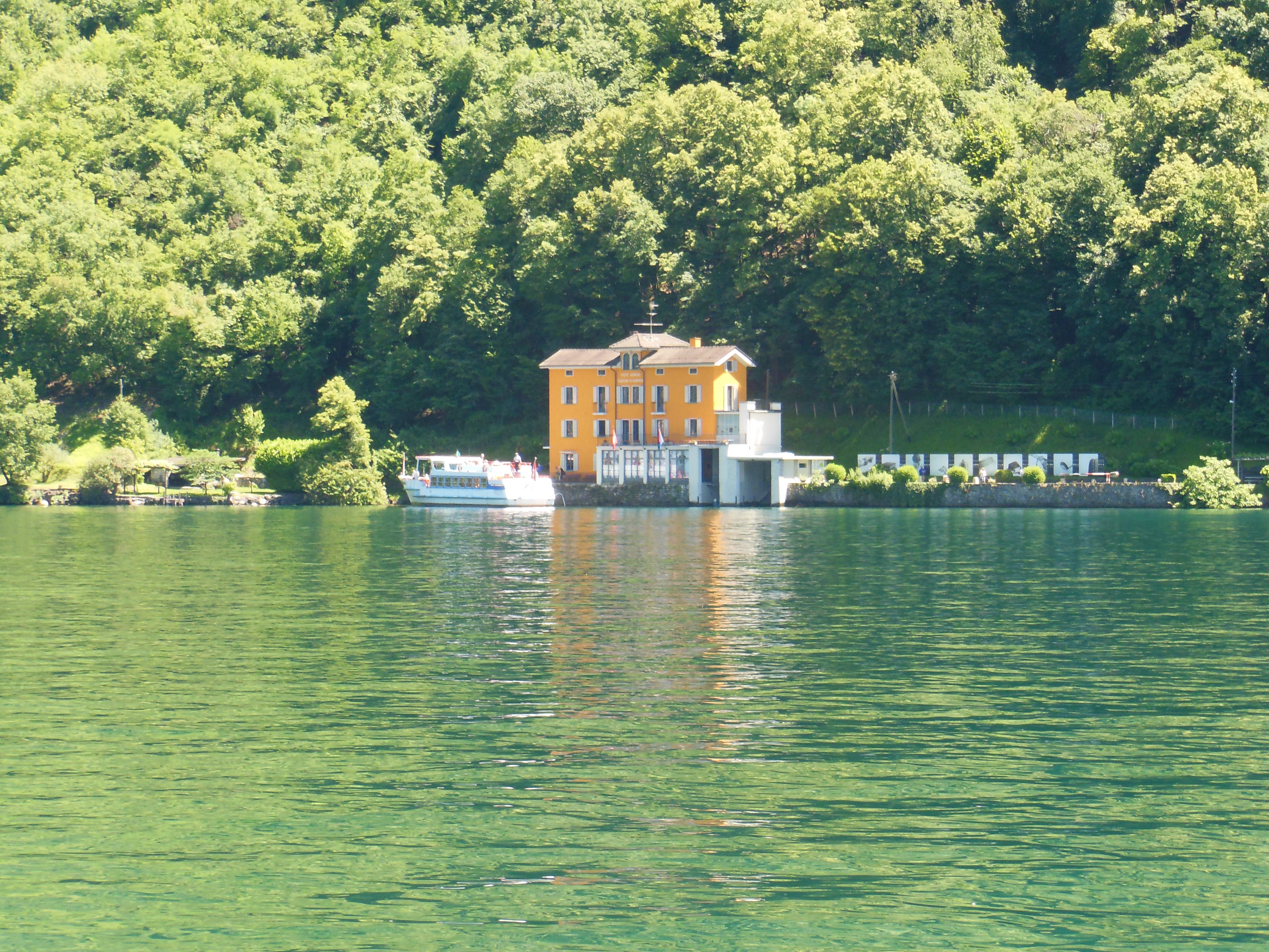 The Swiss Customs Museum, on Lake Lugano in the Swiss canton of Ticino. For more information, see the Wikipedia article Swiss Customs Museum.